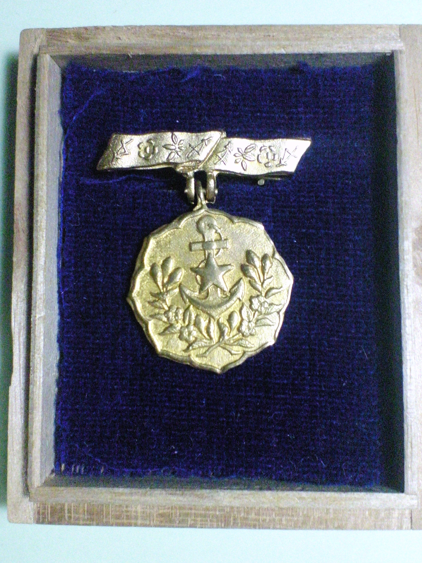 Patriotic Womens Association. Special member badge.